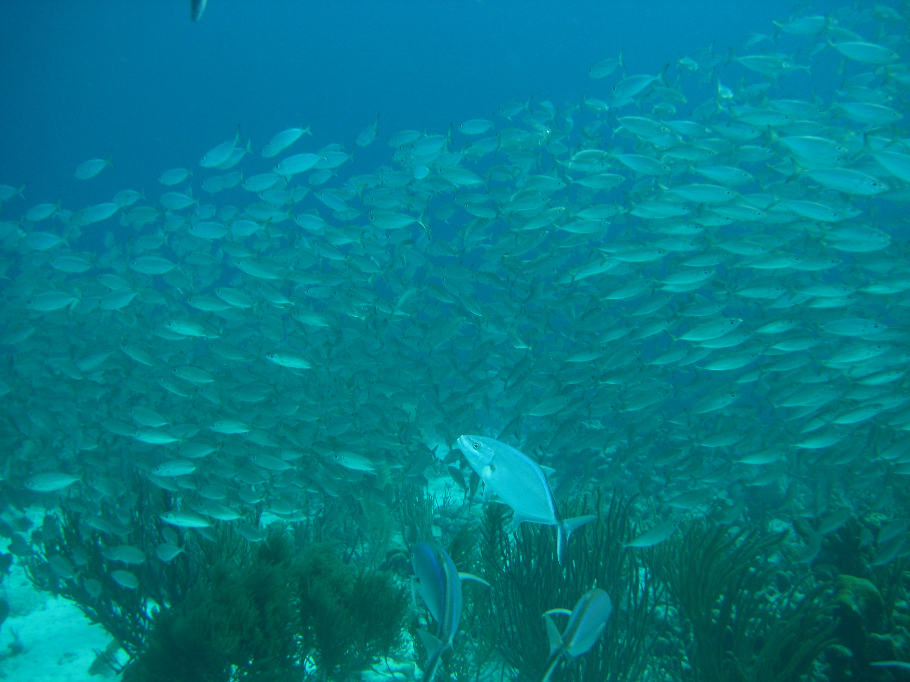 Bar jacks hunting We never saw any of the jacks take a fish, though they made a few dashes through the bait ball. I think our presence kind of cramped their style. Within a few minutes the jacks herded their prey out of sight down the reef.